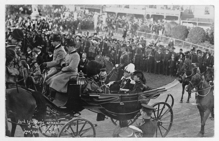 Lord Islington arriving in Wellington in a ceremonial open carriage with a police mounted escort and a crowd of spectators.